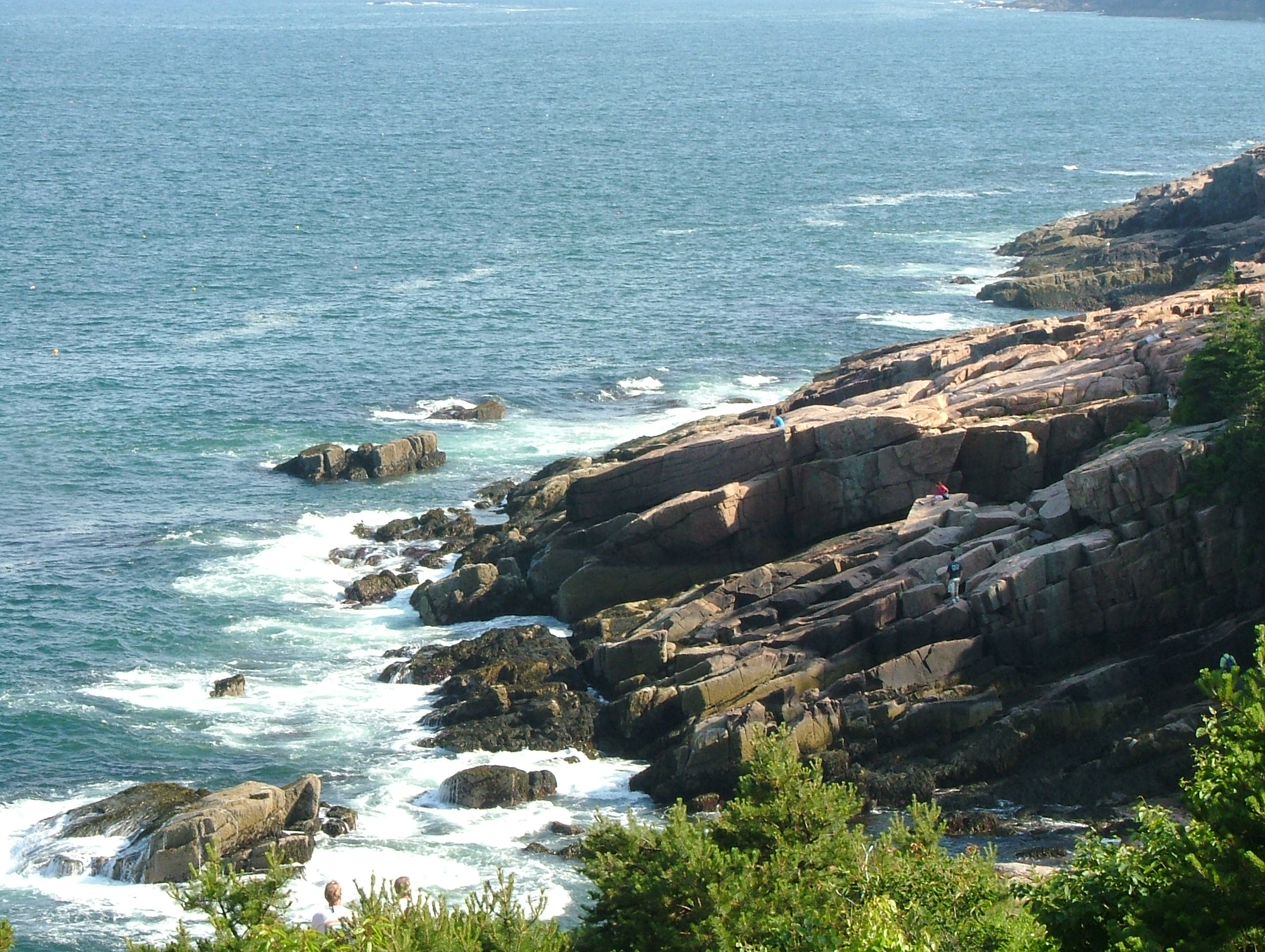 Rocky coastline on mount desert Island, Maine.